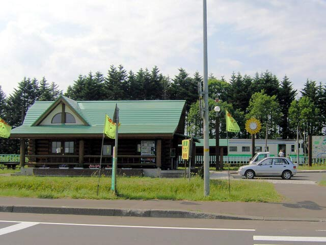 Tsukigaoka Station on Sassho Line, Japan